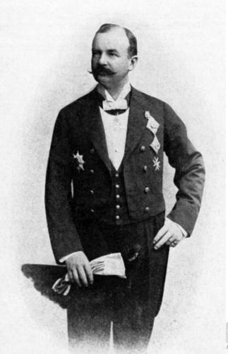 Leberecht von Kotze